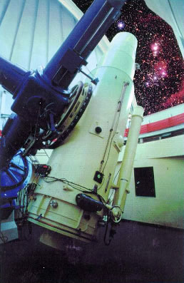 The Curtis-Schmidt Telescope at Cerro Tololo Inter-American Observatory, also known as the Michigan Orbital Debris Survey Telescope.